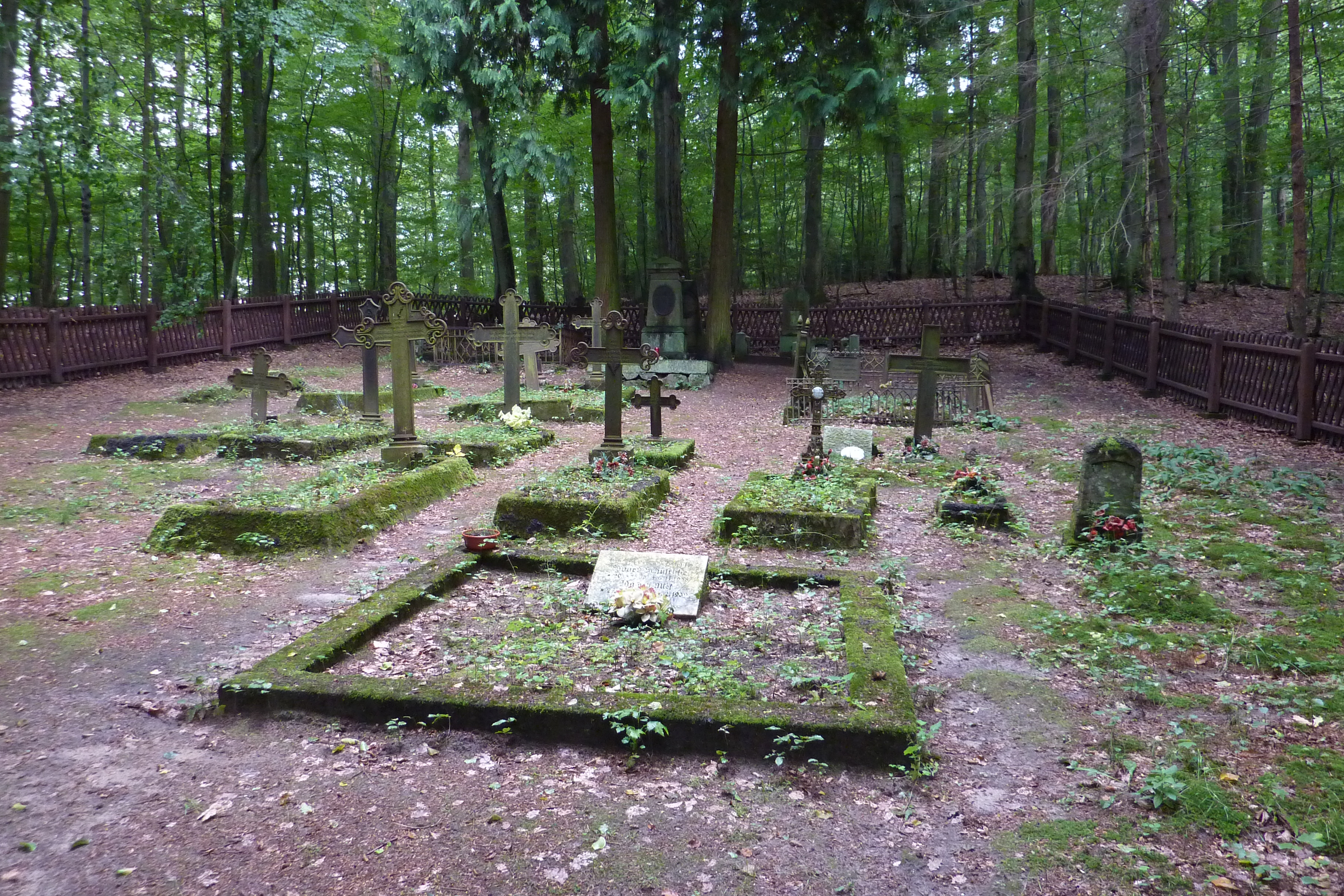 Evangelical cemetery (veteran German forester's)